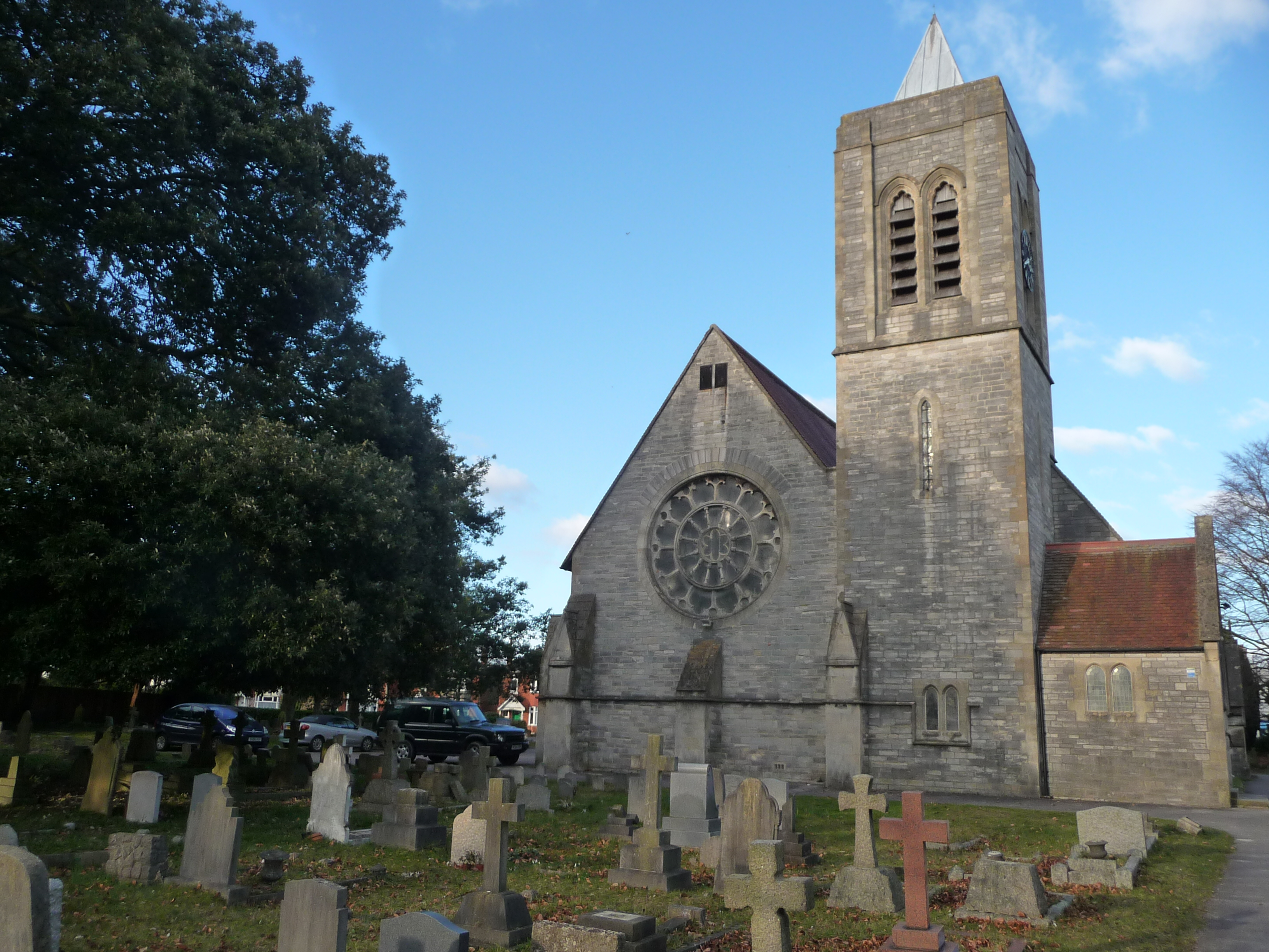 St John the Baptist's parish church, Wimborne Road, Moordown, Bournemouth, seen from the north. The lower stages of the north tower were designed by GE Street and completed in 1874. The belfry was designed by Sidney Tugwell and completed in 1923.